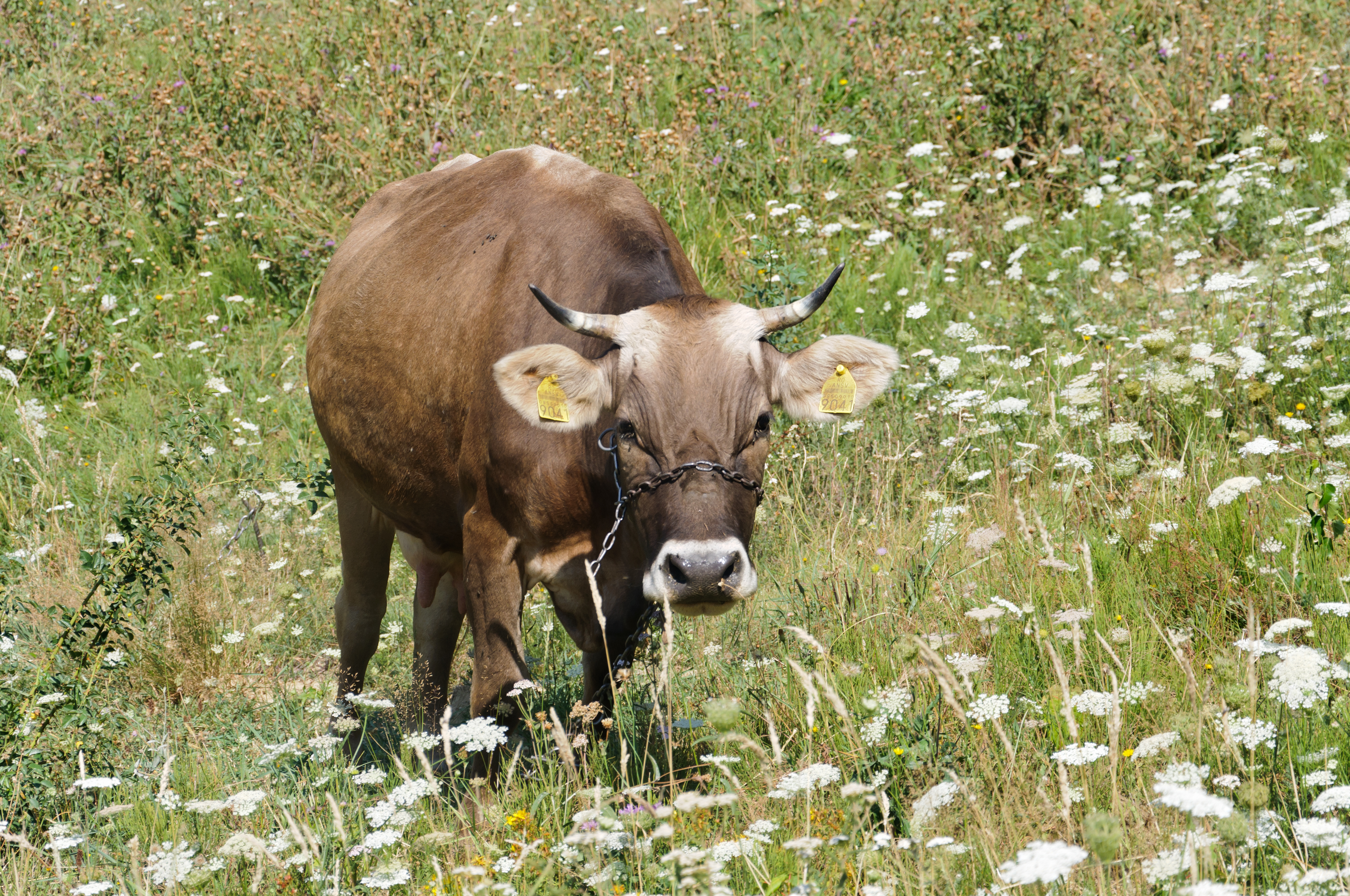 Brown cow (guessed Bruna de Maramureş breed) in Bran, Romania.